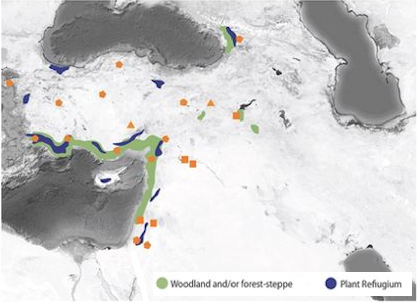 Archaeological evidence of human activities at the end of the Upper Paleolithic and during the Epipaleolithic; human occupation signs 29–15.2 ka, wood charcoal, nuts 15.9–11.2 ka